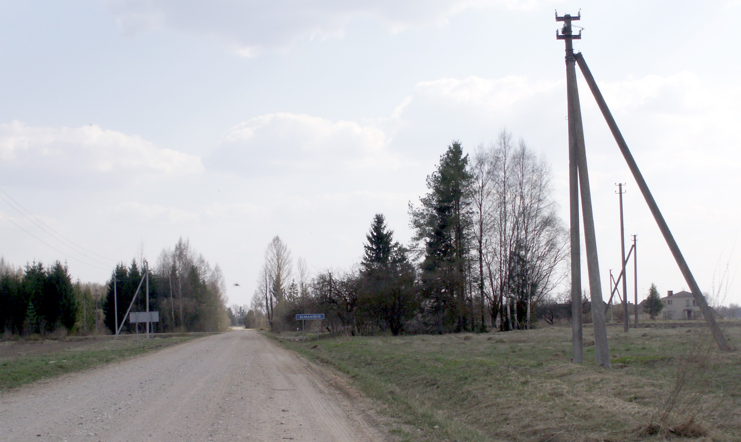 Slimaniškis, Biržai district, Lithuania